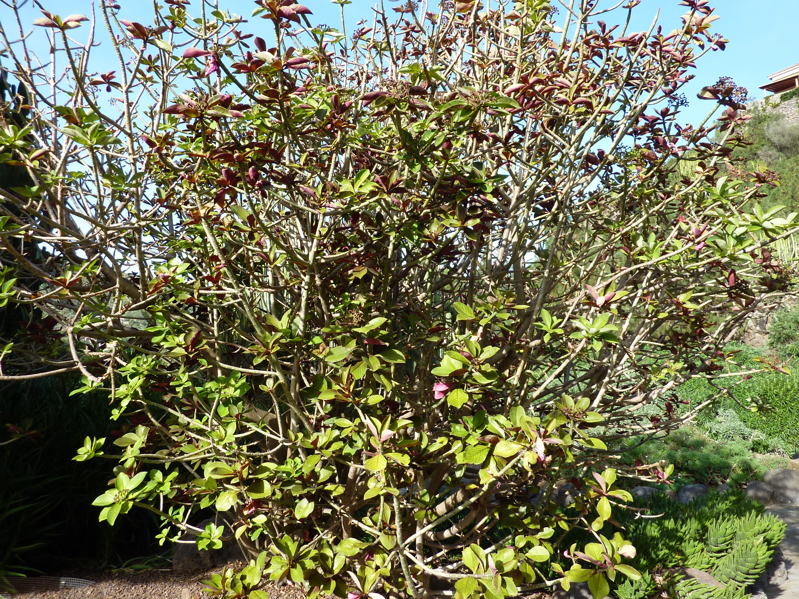 Synadenium grantii growing in the Jardín Botánico Canario Viera y Clavijo.